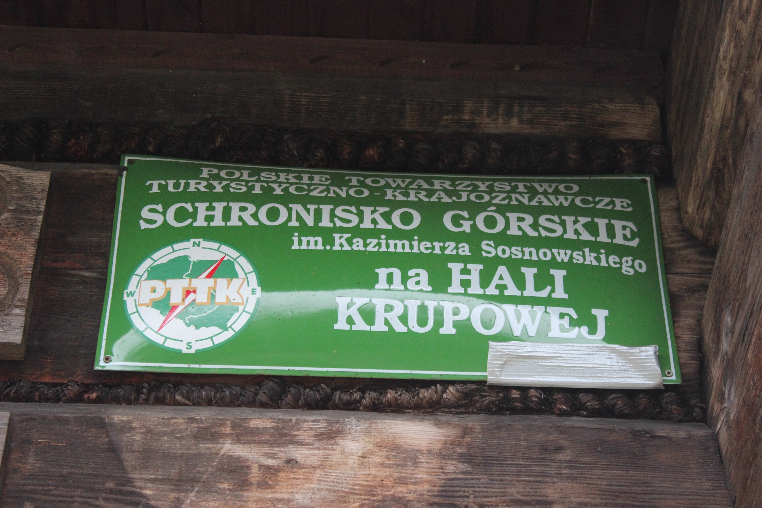 Hala Krupowa mountain hut